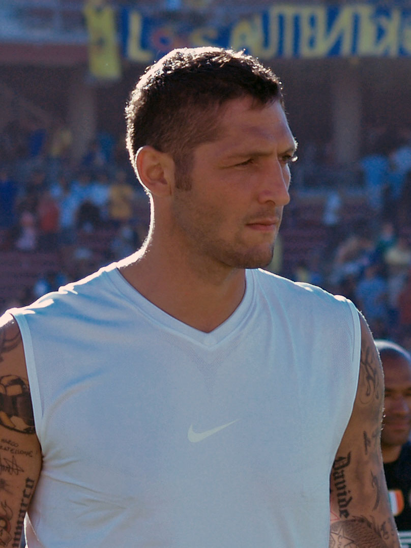 Club América v Internazionale, 21 July 2009, Nerazzurri's defender Marco Materazzi.